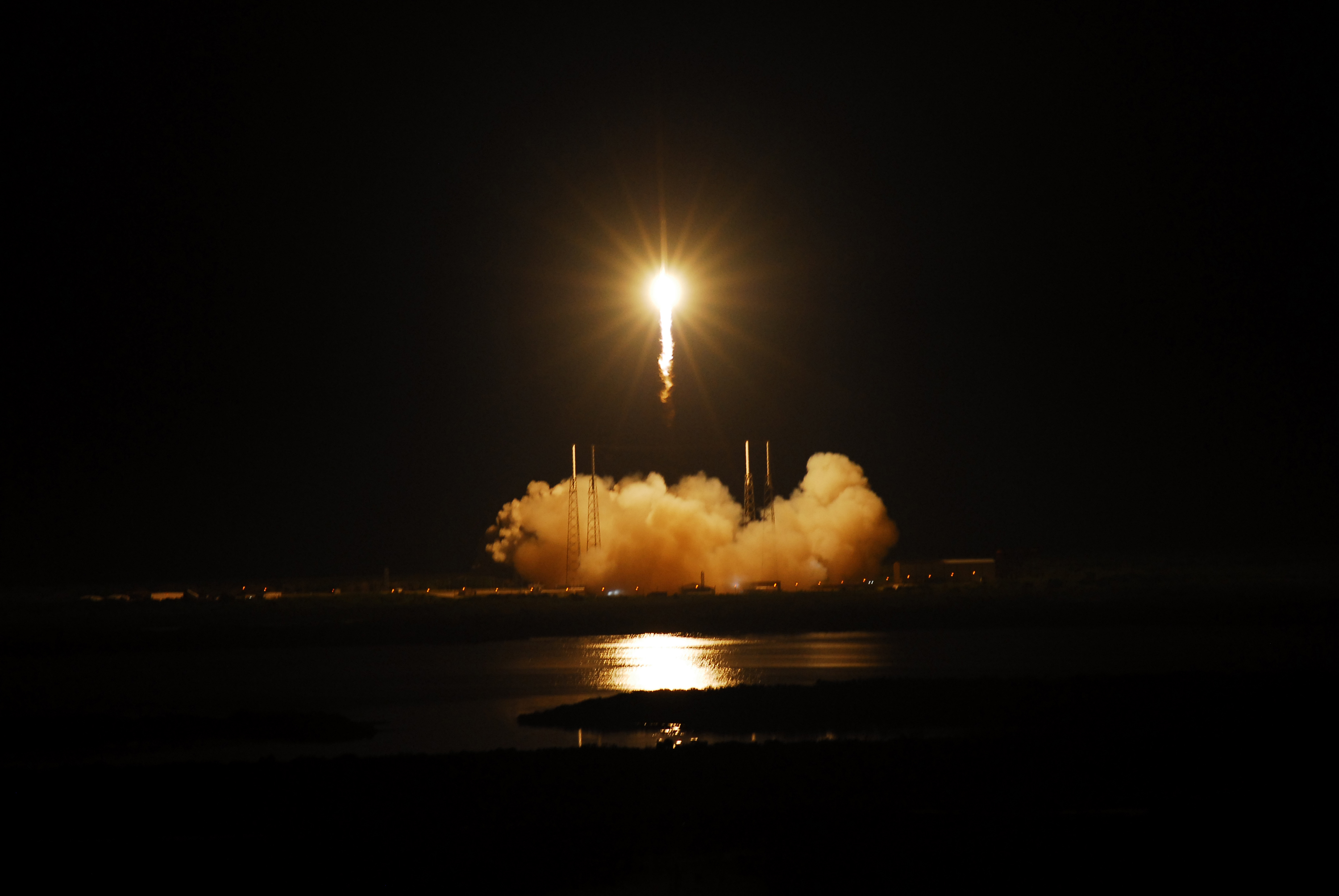 CAPE CANAVERAL, Fla. – The SpaceX Falcon 9 rocket soars into space from Space Launch Complex-40 on Cape Canaveral Air Force Station in Florida at 3:44 a.m. EDT, carrying the Dragon capsule to orbit. The launch is the company's second demonstration test flight for NASA's Commercial Orbital Transportation Services, or COTS, Program. During the flight, the Dragon will conduct a series of check-out procedures to test and prove its systems, including rendezvous and berthing with the International Space Station. If the capsule performs as planned, the cargo and experiments it is carrying will be transferred to the station. The cargo includes food, water and provisions for the station’s Expedition crews, such as clothing, batteries and computer equipment. Under COTS, NASA has partnered with two aerospace companies to deliver cargo to the station.